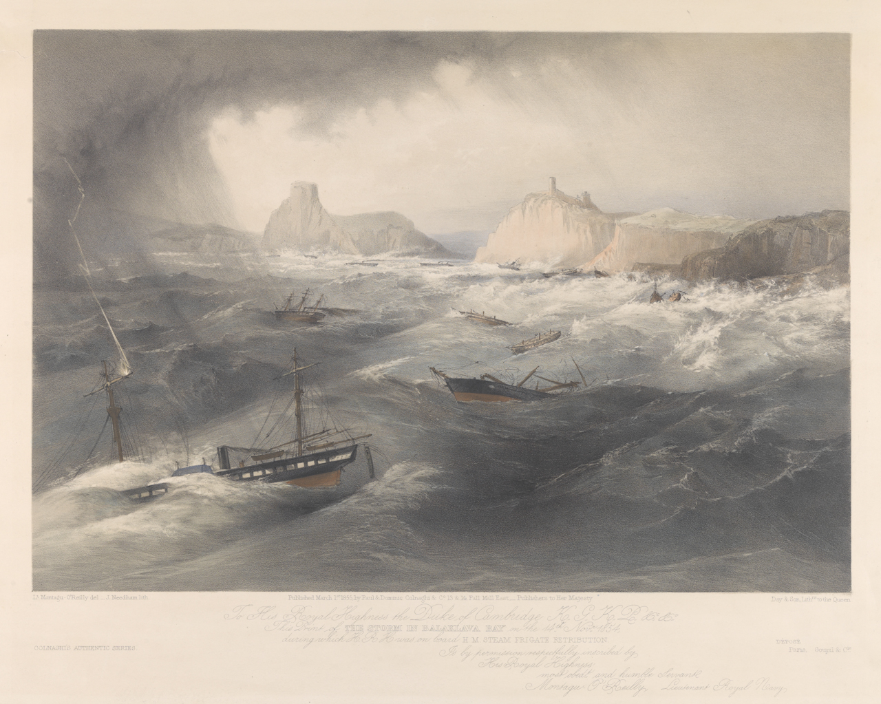 To His Royal Highness the Duke of Cambridge... the storm in Balaklava Bay on the 14th Nov, 1854, during which H.R.H. was on board H.M. steam frigate Retribution. Colnaghi's authentic series Print To His Royal Highness the Duke of Cambridge... the storm in Balaklava Bay on the 14th Nov, 1854, during which H.R.H. was on board H.M. steam frigate Retribution. Colnaghi's authentic series